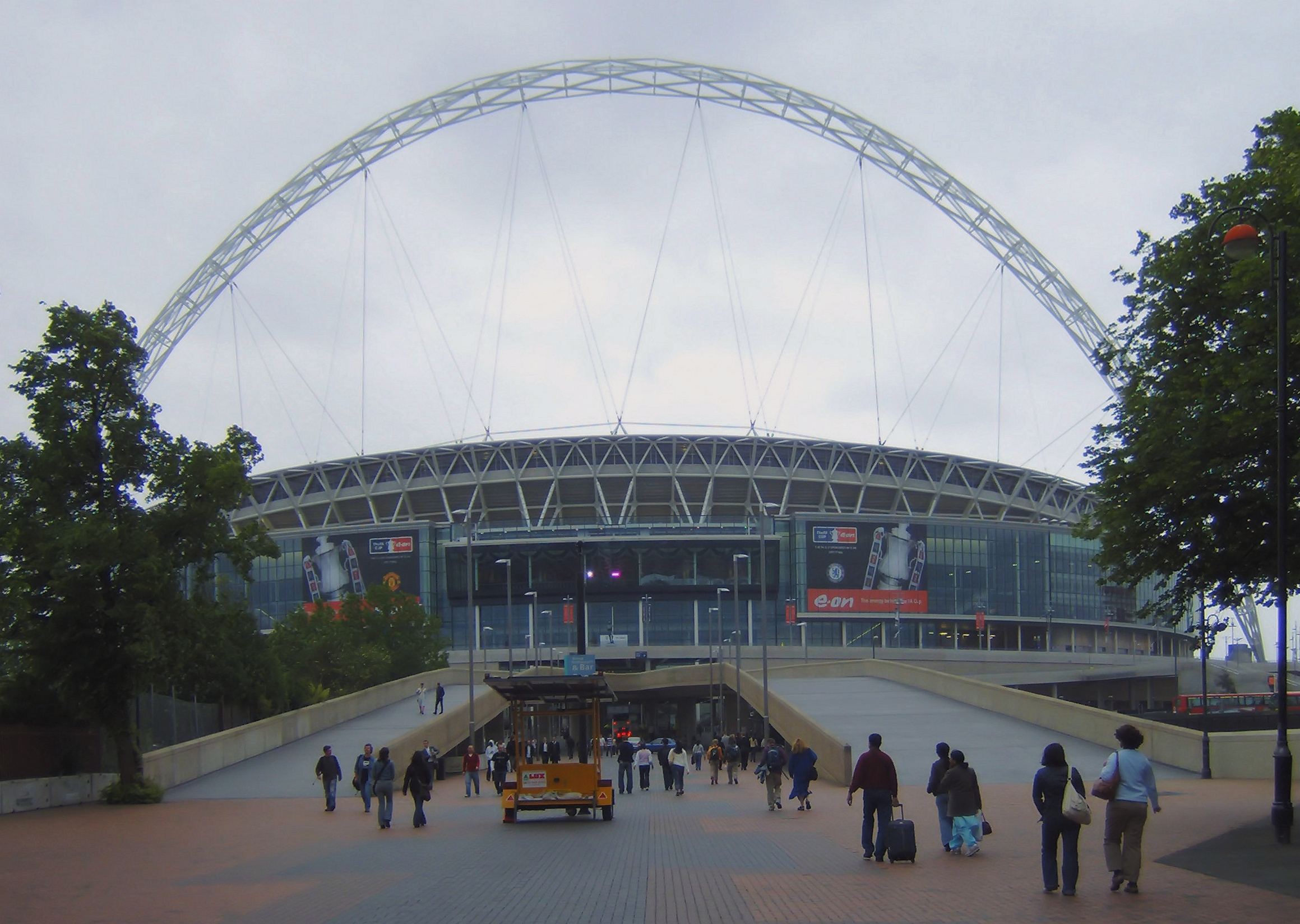 Closeup of the second Wembley Stadium, one day before it hosted the 2007 FA Cup final. It is built 30 metres north of the site of the previous stadium, used from 1923 to 2000. The current stadium was constructed from 2003 to 2007.